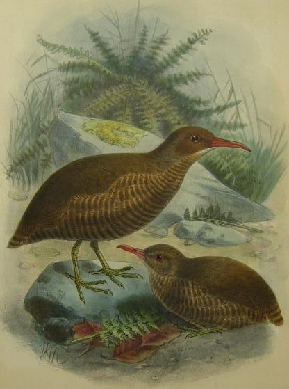 From supplement to a History of the Birds of New Zealand (1905). By Sir Walter Lawry Buller (1838–1906). Illustrated by John Gerrard Keulemans (1842-1912): Dutch bird illustrator.